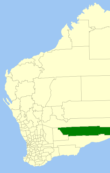 Location of the Local Government Area in Western Australia